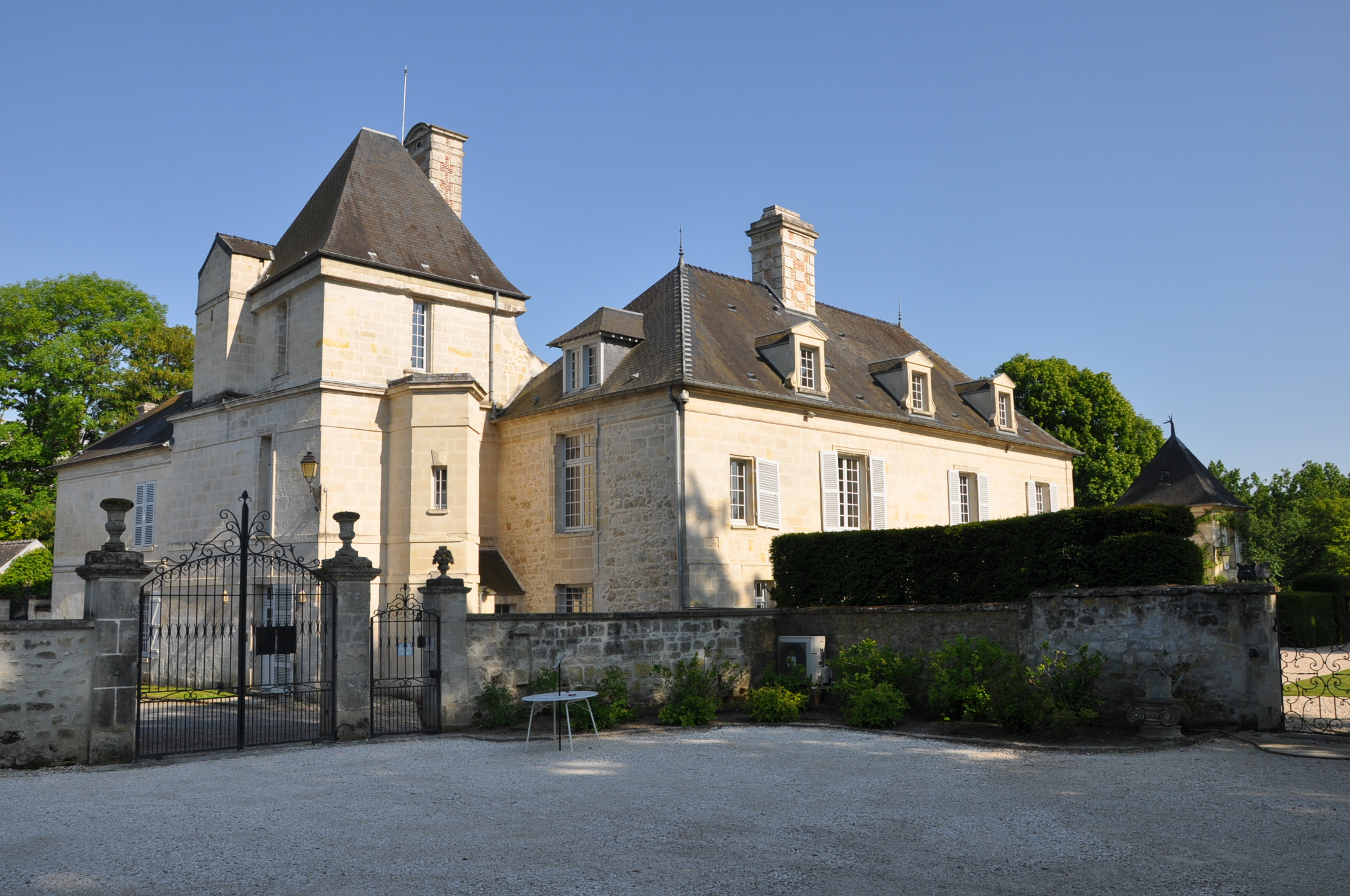 Château de la Muette